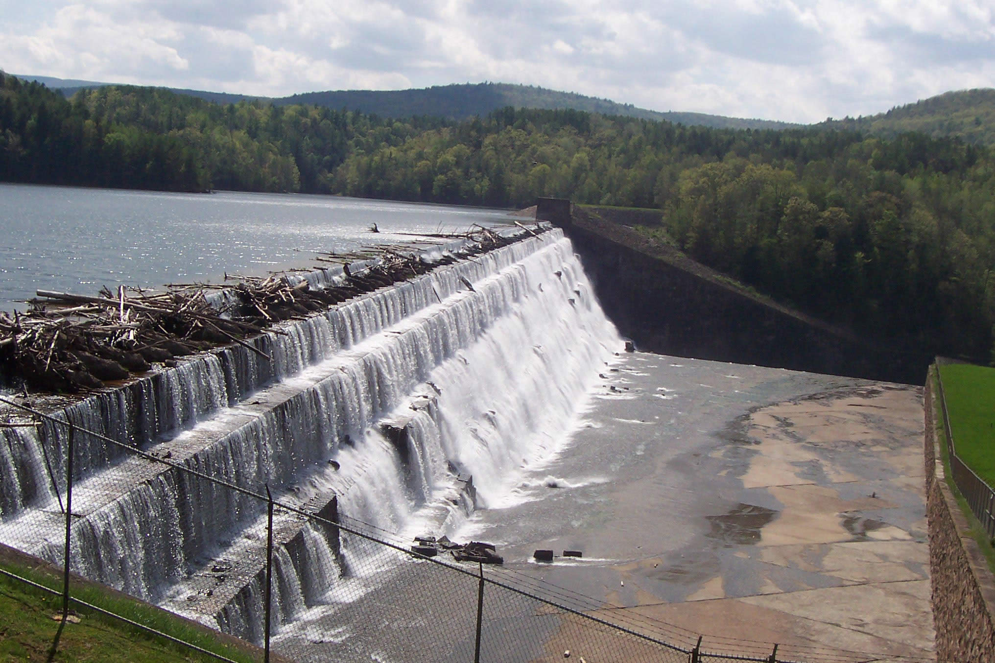 Photo of the Gilboa Dam overflowing.